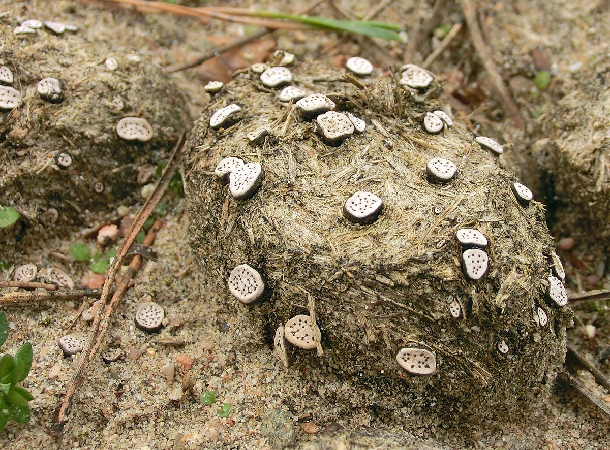 Poronia erici, small fungi (2-6 mm in diameter) growing on dung (feces) of donkeys. - Germany, southern Hesse, Landkreis Darmstadt-Dieburg, Weiterstadt-Gräfenhausen, "Apfelbach" sand dune.